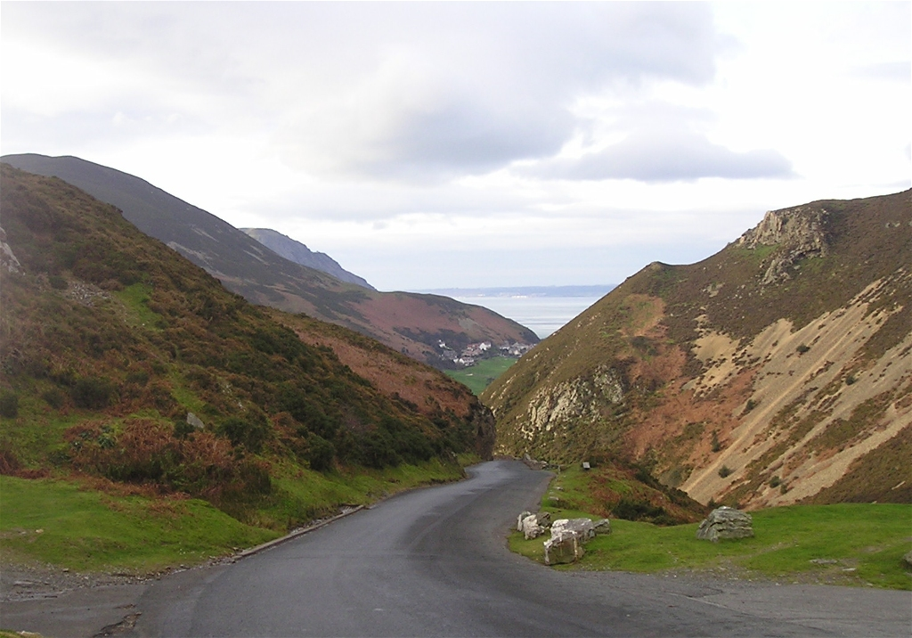 Taken by me, Noel Walley on 14/01/2005